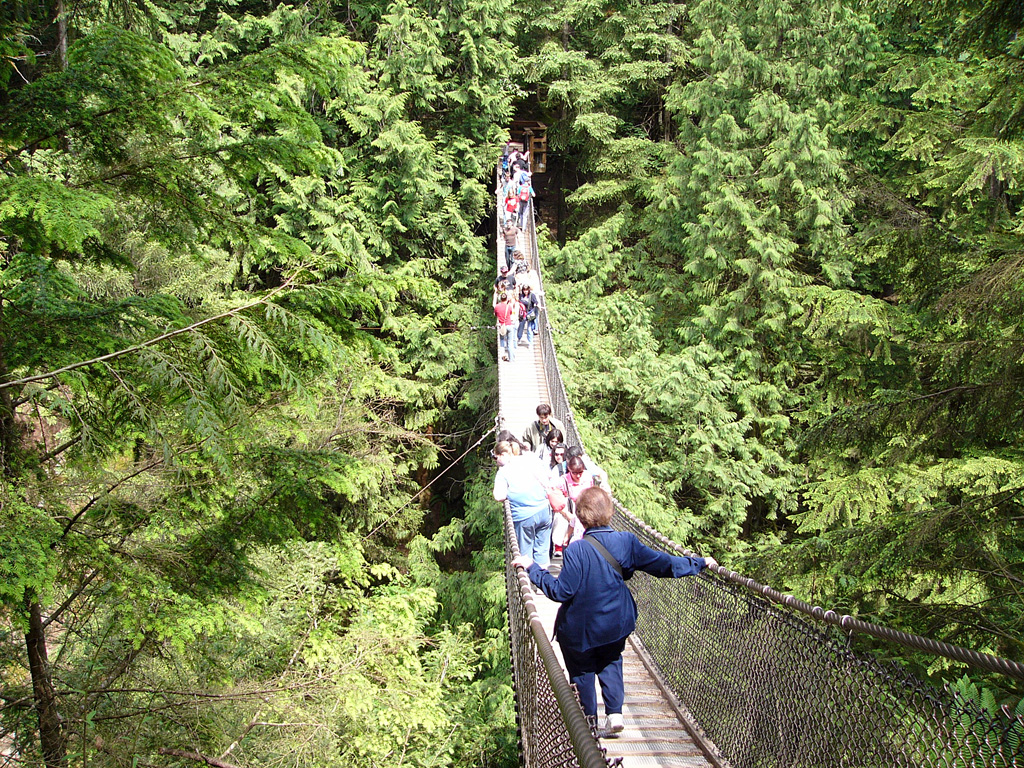 Lynn_Canyon_Park